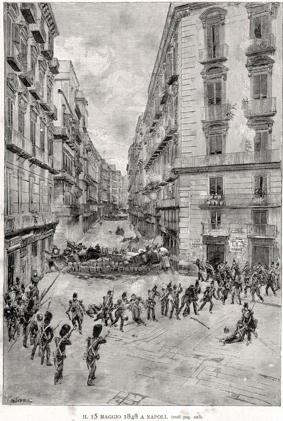 Neaples 15 may 1848 barricades and repression in Via Toledo